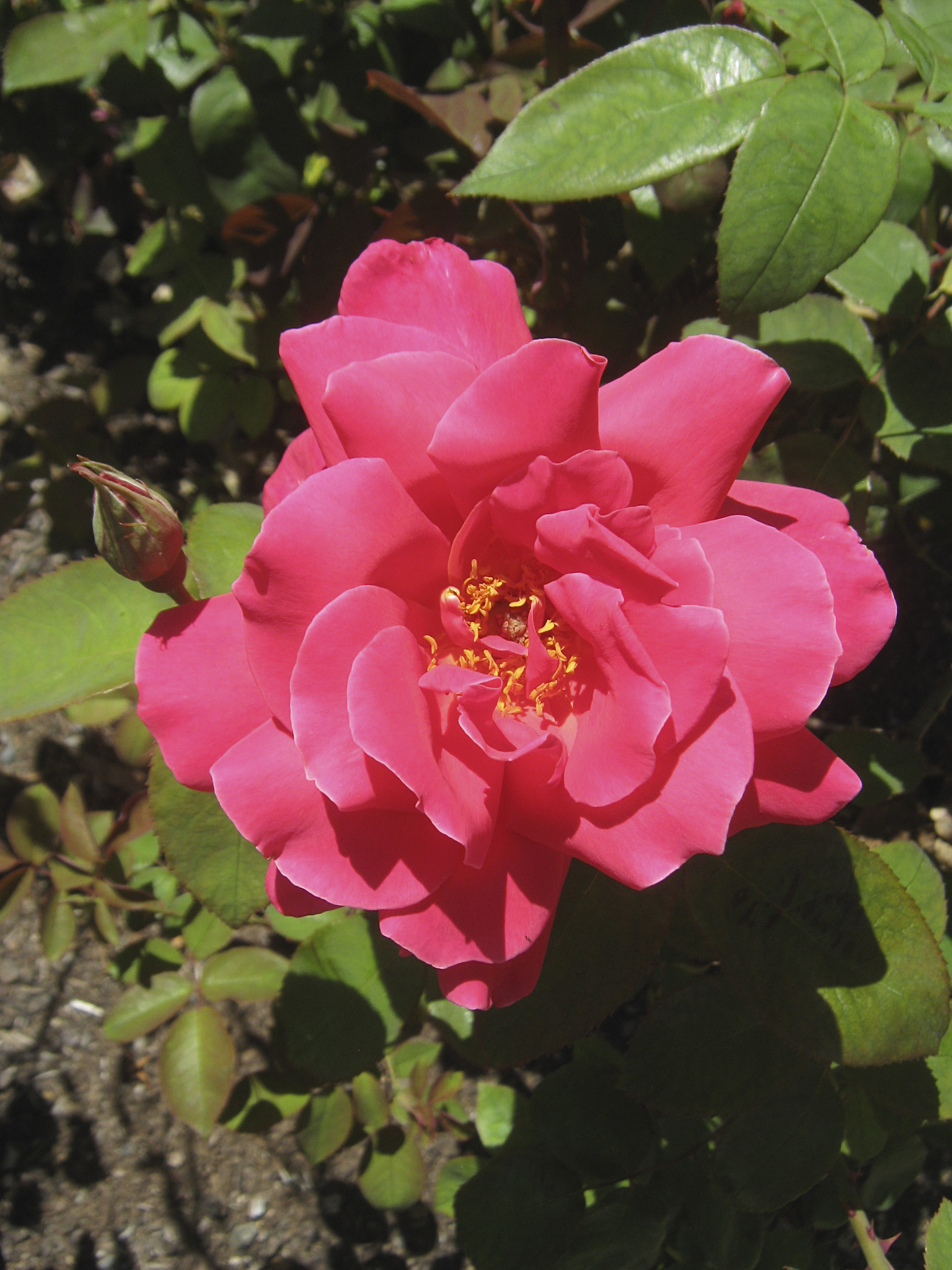 Rose 'Charlotte Armstrong' Hybrid Tea by Lammerts 1940; photographed in the Nieuwesteeg Heritage Rose Garden, Maddingley Park, Bacchus Marsh, Victoria